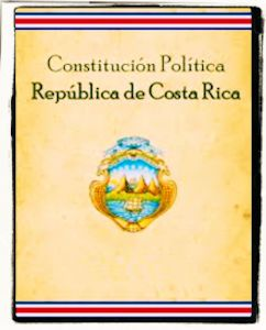 Simple cover of a Constitution of Costa Rica booklet